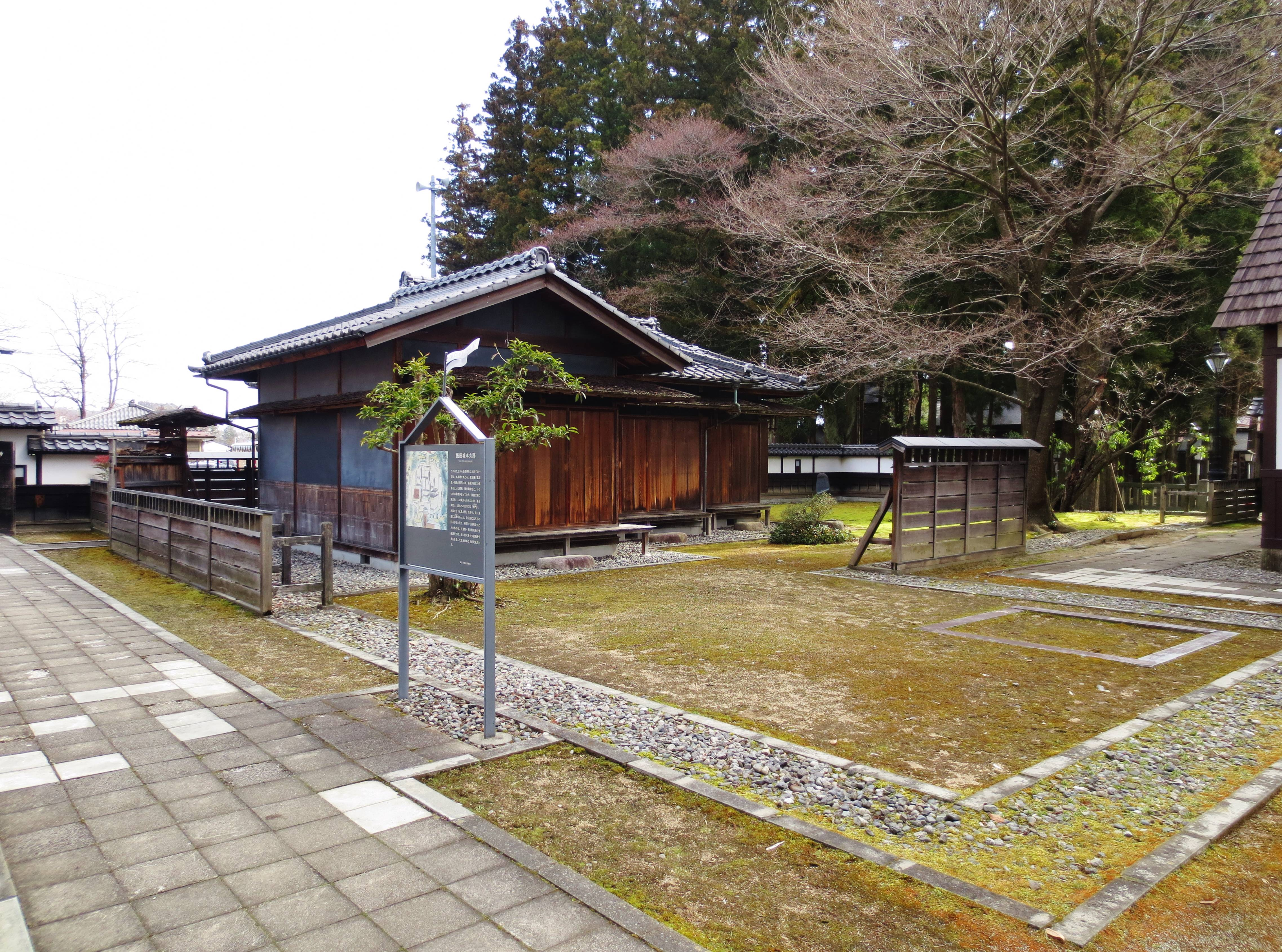 Iida Castle Honmaru.